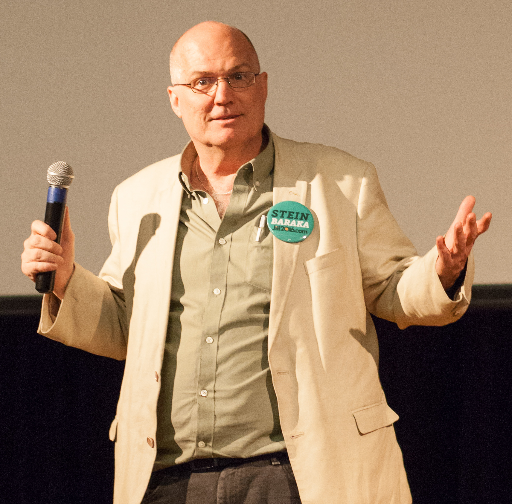 David Cobb speaks at a rally for Jill Stein at the Berkeley City Club, October 2016.